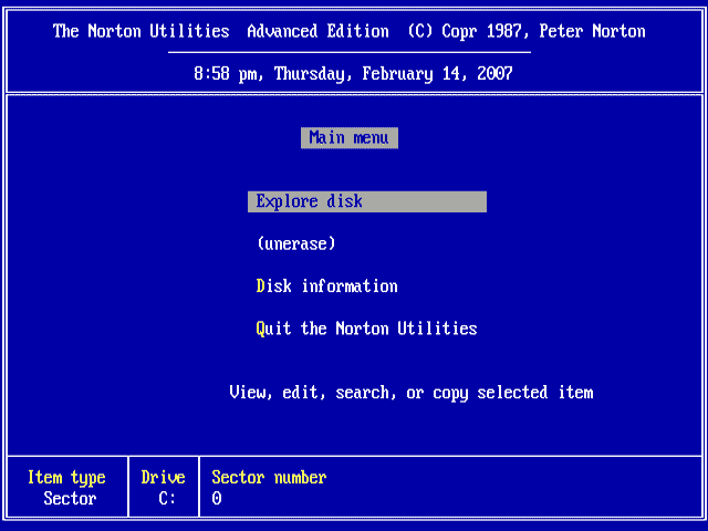 Sample screenshot of the Norton Utilities 4.0 opening screen, created using DOSBox.